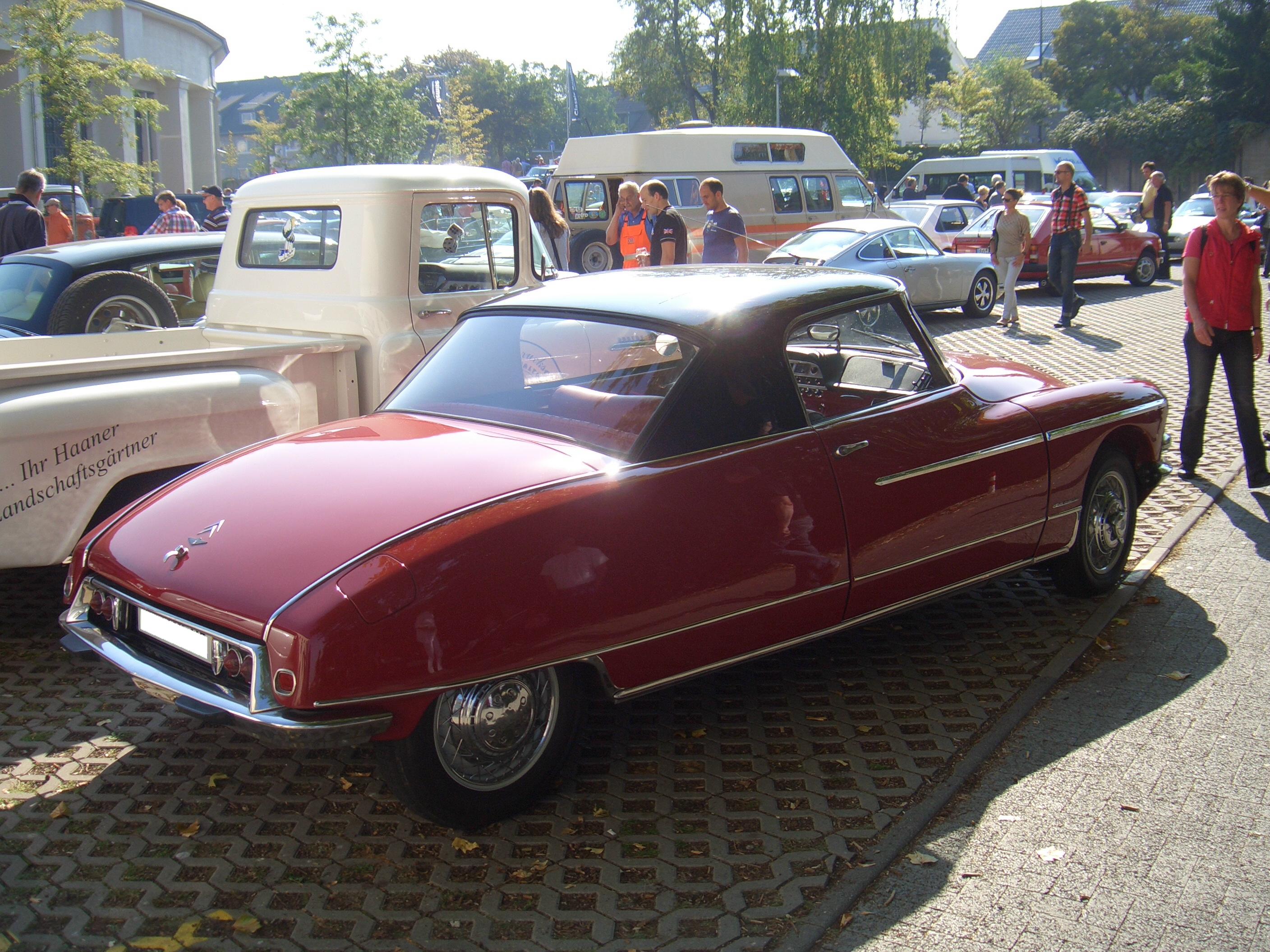 Chapron Le Dandy, Citroen DS-based coupe designed by coachbuilder Henri Chapron